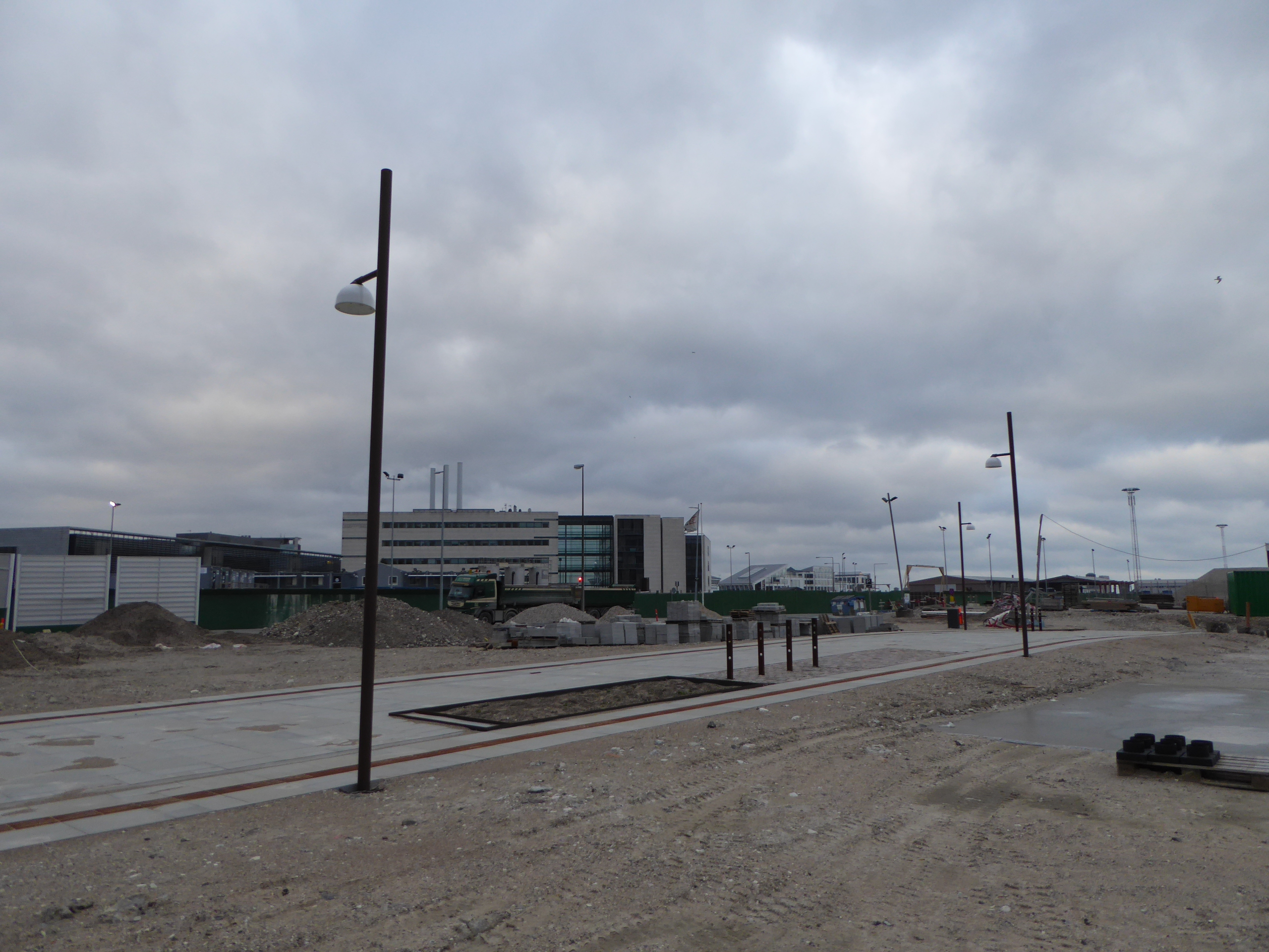 The street Harwichgade in Nordhavn in Copenhagen.